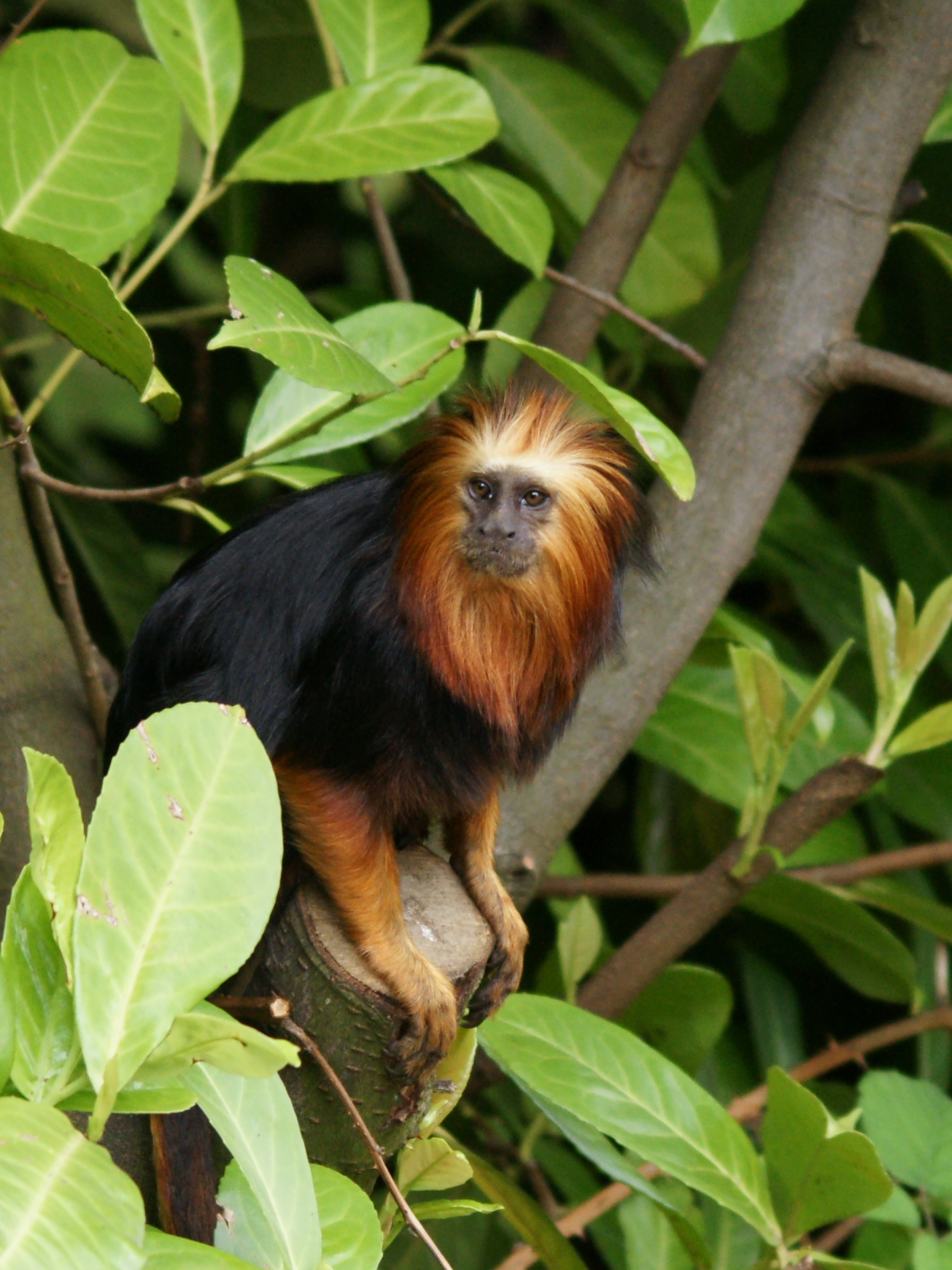 Golden-headed Lion Tamarin at Chester Zoo near Chester, UK.